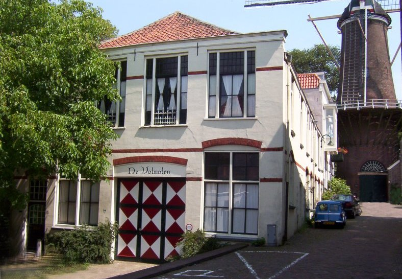 Former wool mill at De Punt, Gouda, with a windmill in the background.